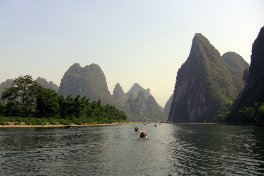 River Li (Lijiang) between Guilin and Yangshuo, Guangxi, China